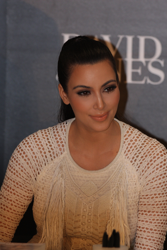 Kim Kardashian And Khloe Get David Jones Tills Ringing, Chaos American reality television celebrity Kim Kardashian was once again the cause of a mass of humanity (and massive traffic jams in the Sydney CBD), described by many as complete "chaos". Coincidence or not, emergency vehicle sirens could be heard roaring through Sydney's CBD district, with car accidents and fan barricades at bursting point, all while mother nature delivered a torrential downpour of rain. Inside David Jones sirens of a different kind - media and fan heat seekers Kim Kardashian and sister Khloe promoted their wares - new handbags dubbed the Kardashian Kollection. The bags kept cash tills ringing, although a purchase of a handbag did not 100% guarantee an autograph or photo. The massive queue to see the celebs went from inside the department store on Castlereagh Street and around many city blocks, with teeny poppers forming the most part of of the crowd. "I love the Kardashians" said Tori Rudolph, 13, who skipped school. The influenced teen had been been waiting in the city since 10pm on Wednesday night - well past bed time. Five other school friends had joined her. Kim, 31, was fresh off a divorce filing from NBA player Kris Humphries on Monday, citing "irreconcilable differences." Police officers in yellow vests and numerous security guards patrolled the outside of the popular store as the dynamic duo promoted their wares to a captive audience. Kardashian - continuing to put the business in show business, be it Hollywood or Australia. Websites Keeping Up With The Kardashian's Kim Kardashian official web blog David Jones Eva Rinaldi Photography Flickr Eva Rinaldi Photography